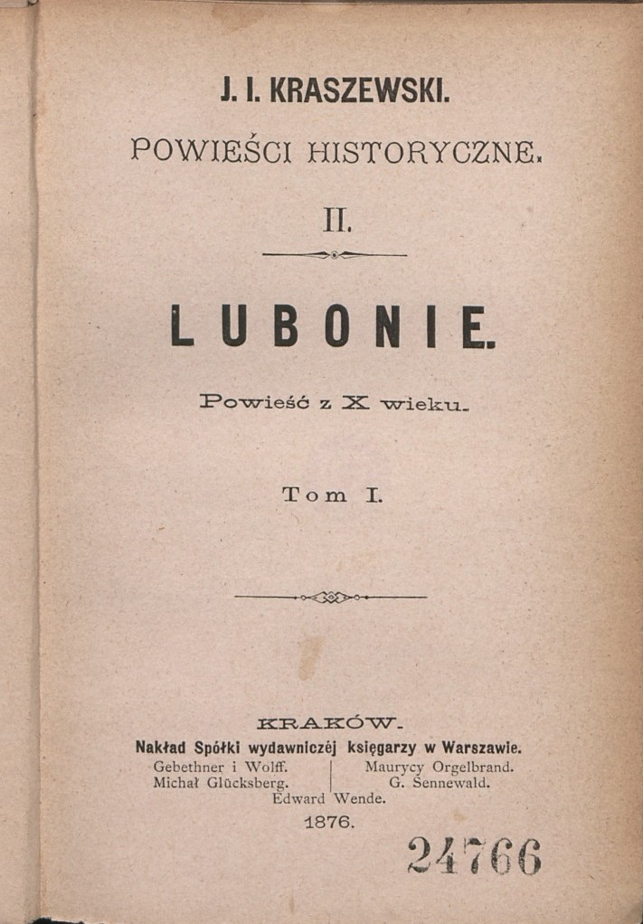 novel